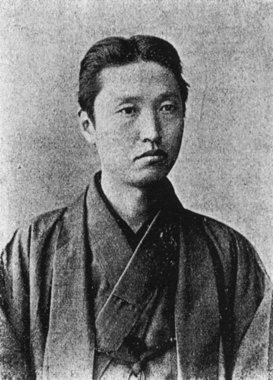 Mr. Iwaji Shinbo.